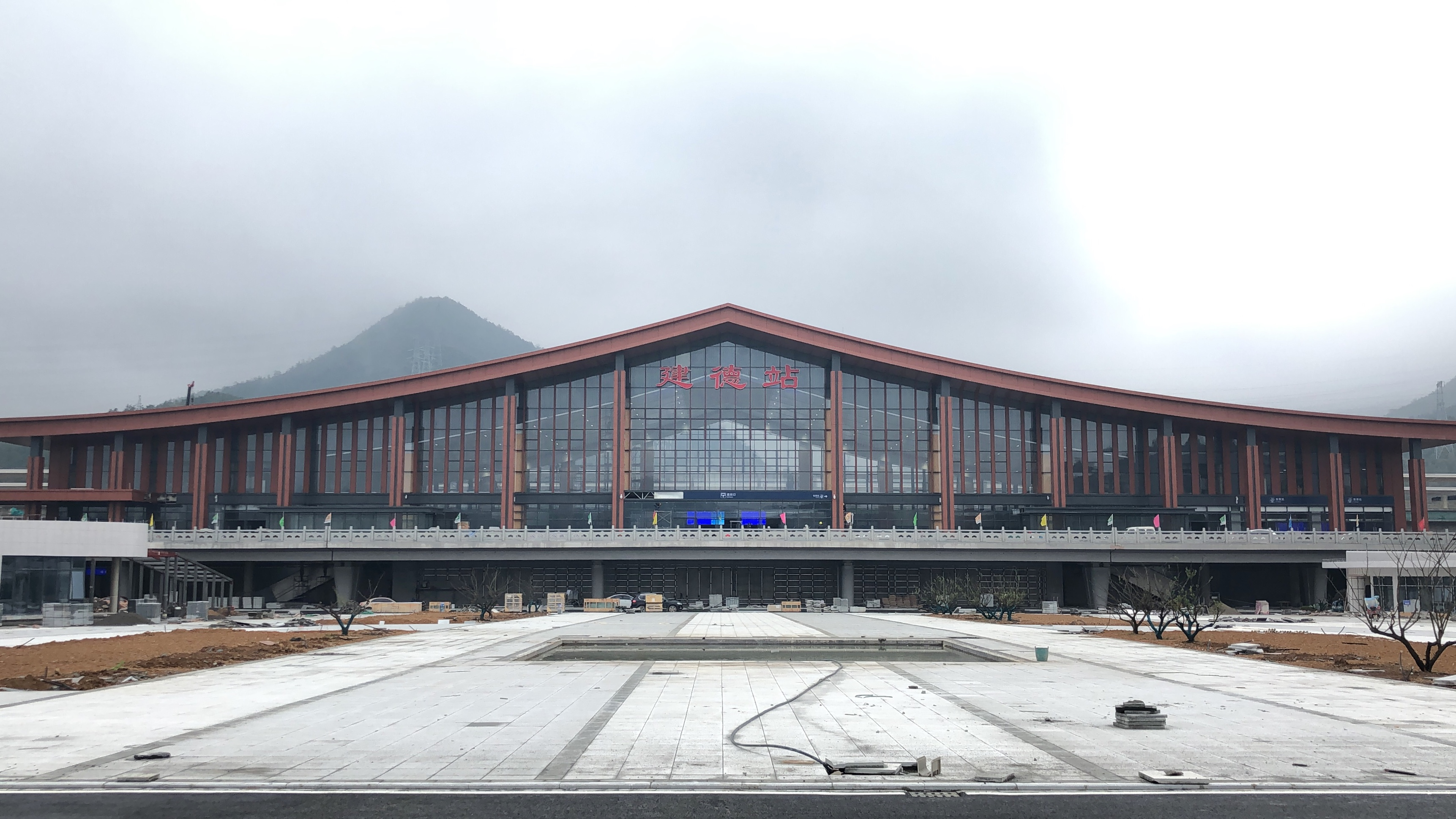 Jiande Railway Station on Hangzhou-Huangshan High-Speed Railway under construction